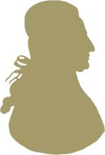 This is a depiction of Samuel Firmin, Esquire. Proprietor of Firmin & Sons from 1754 to 1796.